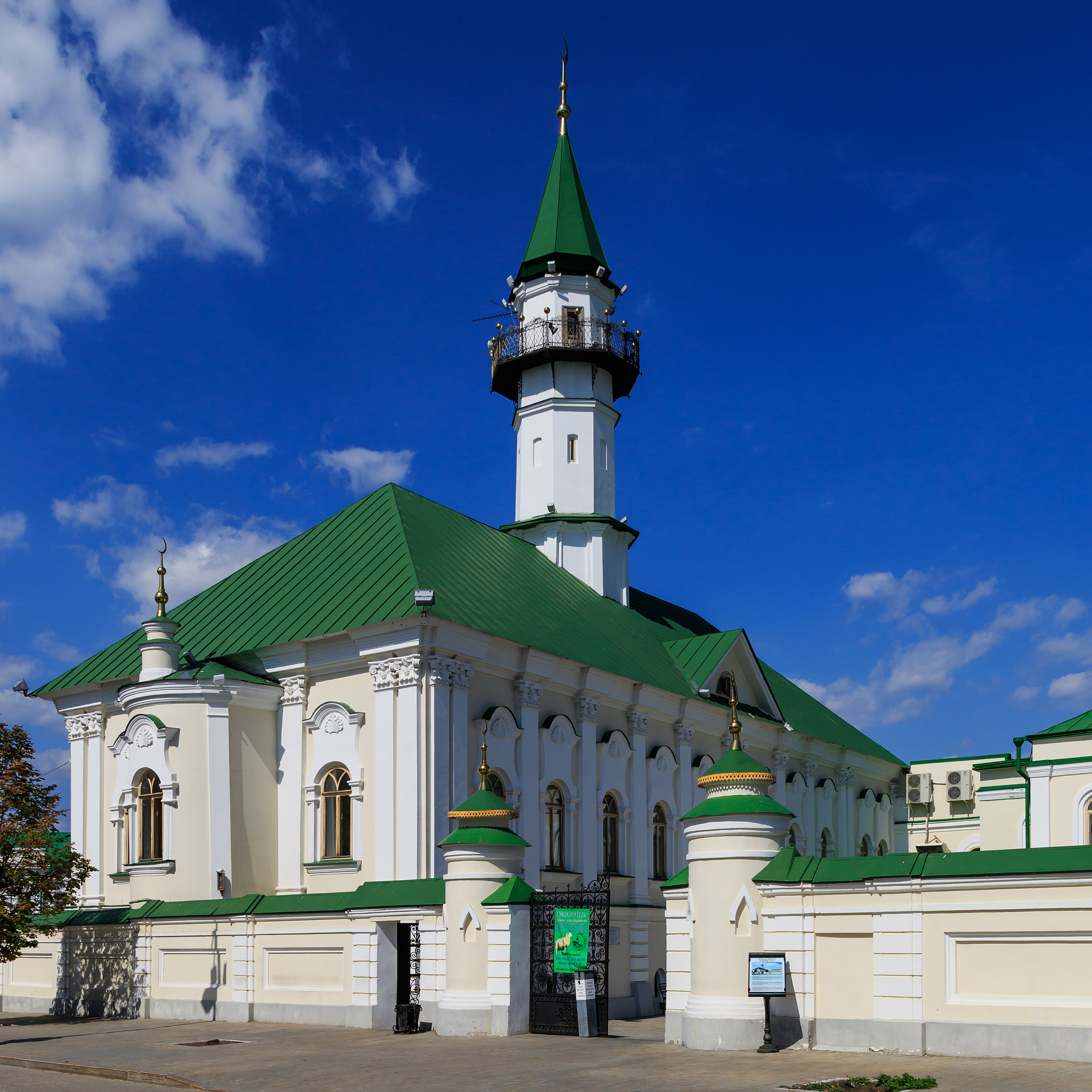 Marjani Mosque in Kazan, Russia